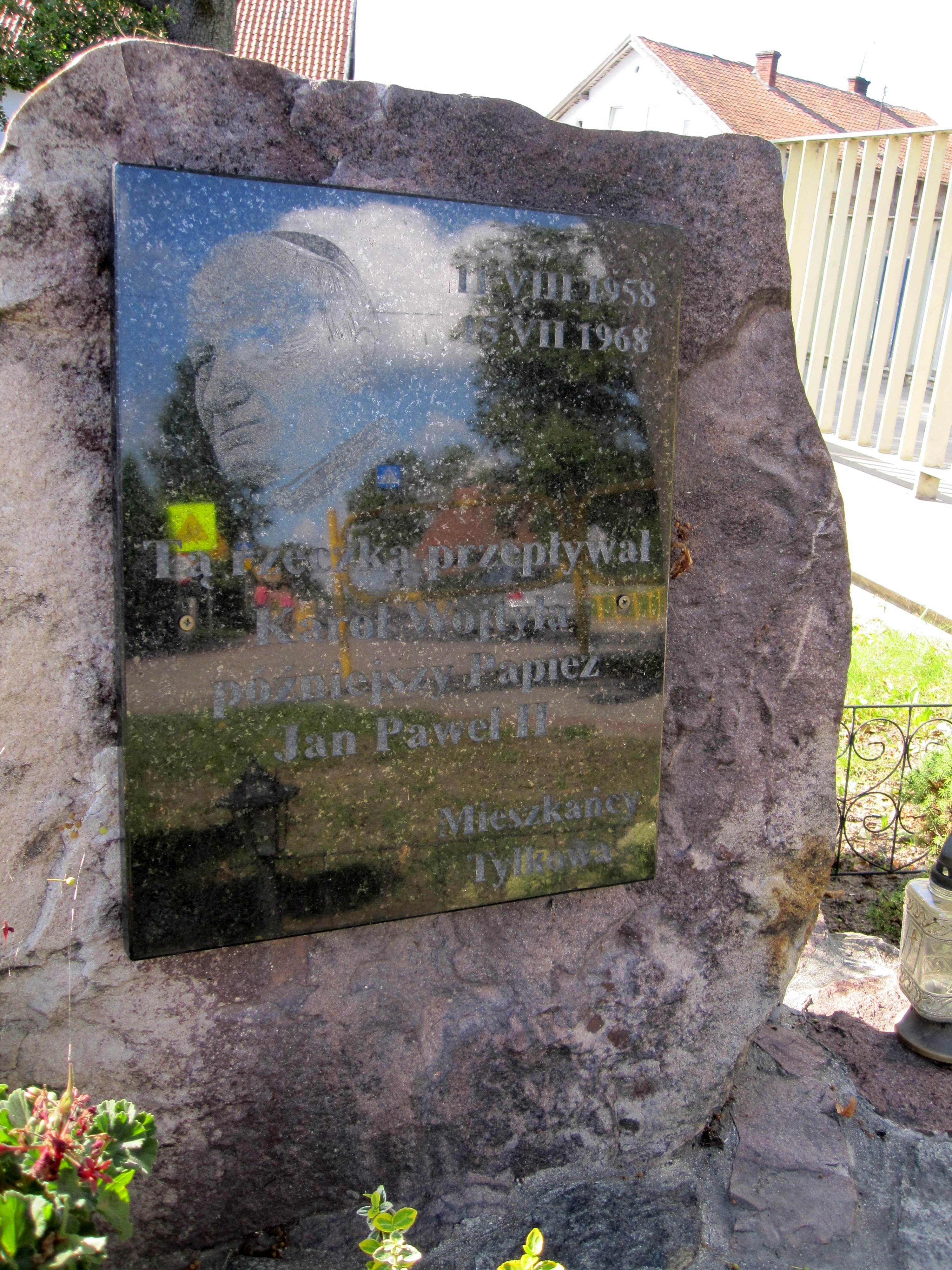 Tylkowo - Pope John Paul II monument